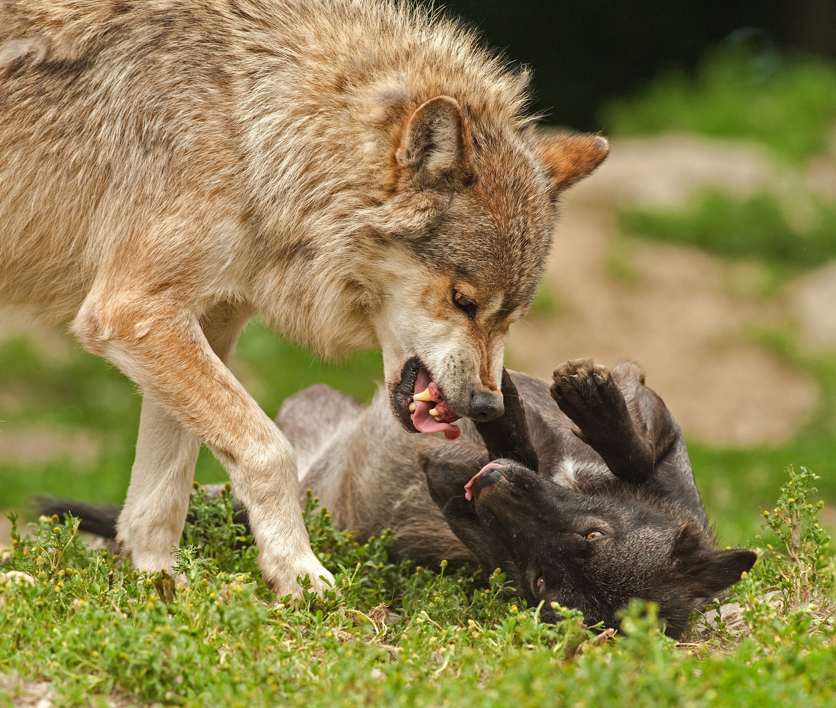 nature-animal-playing-wilderness